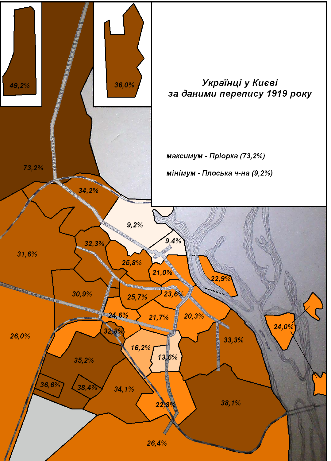 Percentage of ethnic ukrainians in districts of Kyiv according to 1919 municipal population census